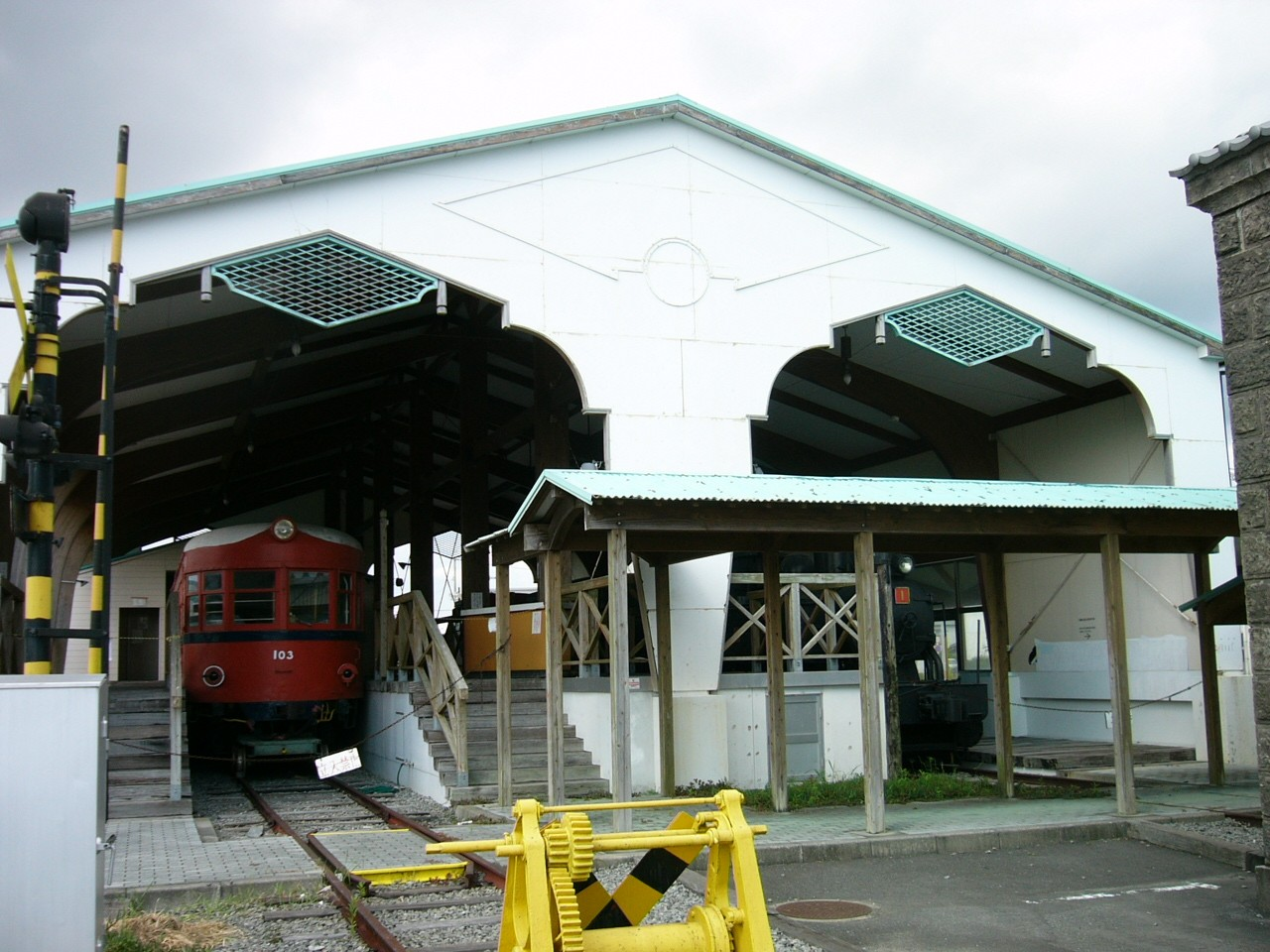 The storage for preserved rolling stocks at Nansatsu railway museum, Minamisatsuma city Kagoshima prefecture Japan